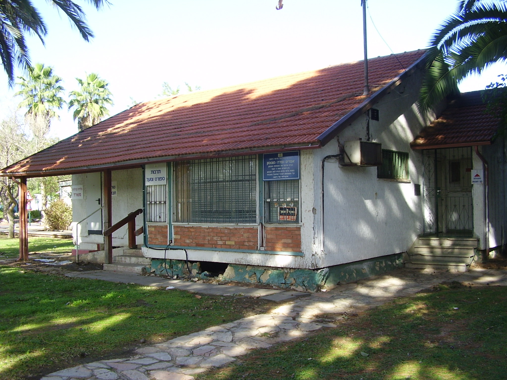 ephraim (fred) monosson house in neve monosson